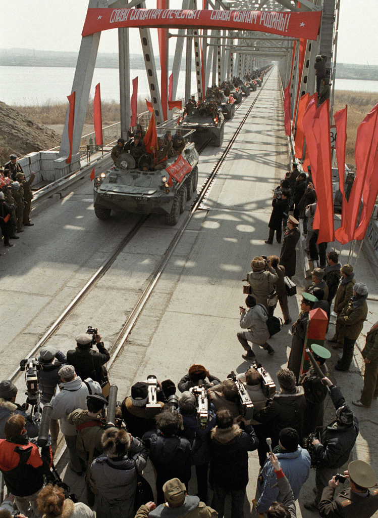 “Withdrawal of Soviet troops from Afghanistan”. Last Soviet troop column crosses Soviet border after leaving Afghanistan.